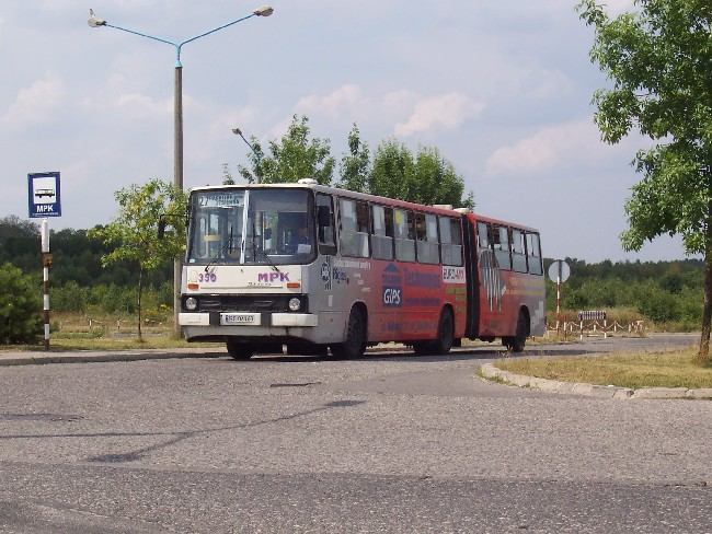 Bus Ikarus 280.26 (#350) from Częstochowa, Poland. Built 1985, MPK Częstochowa operator.